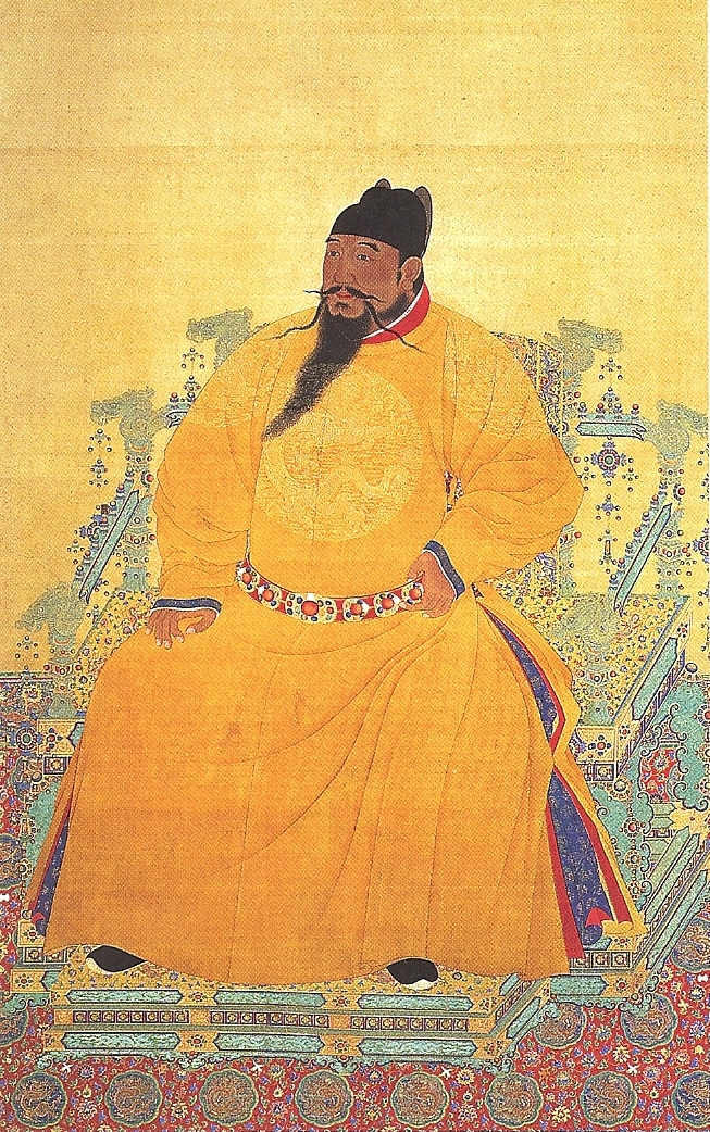 Portrait painting of the Yongle Emperor (r. 1402–1424) of the Chinese Ming Dynasty; ink and color on silk hanging scroll, 22 cm in height, located now at the National Palace Museum in Taipei.